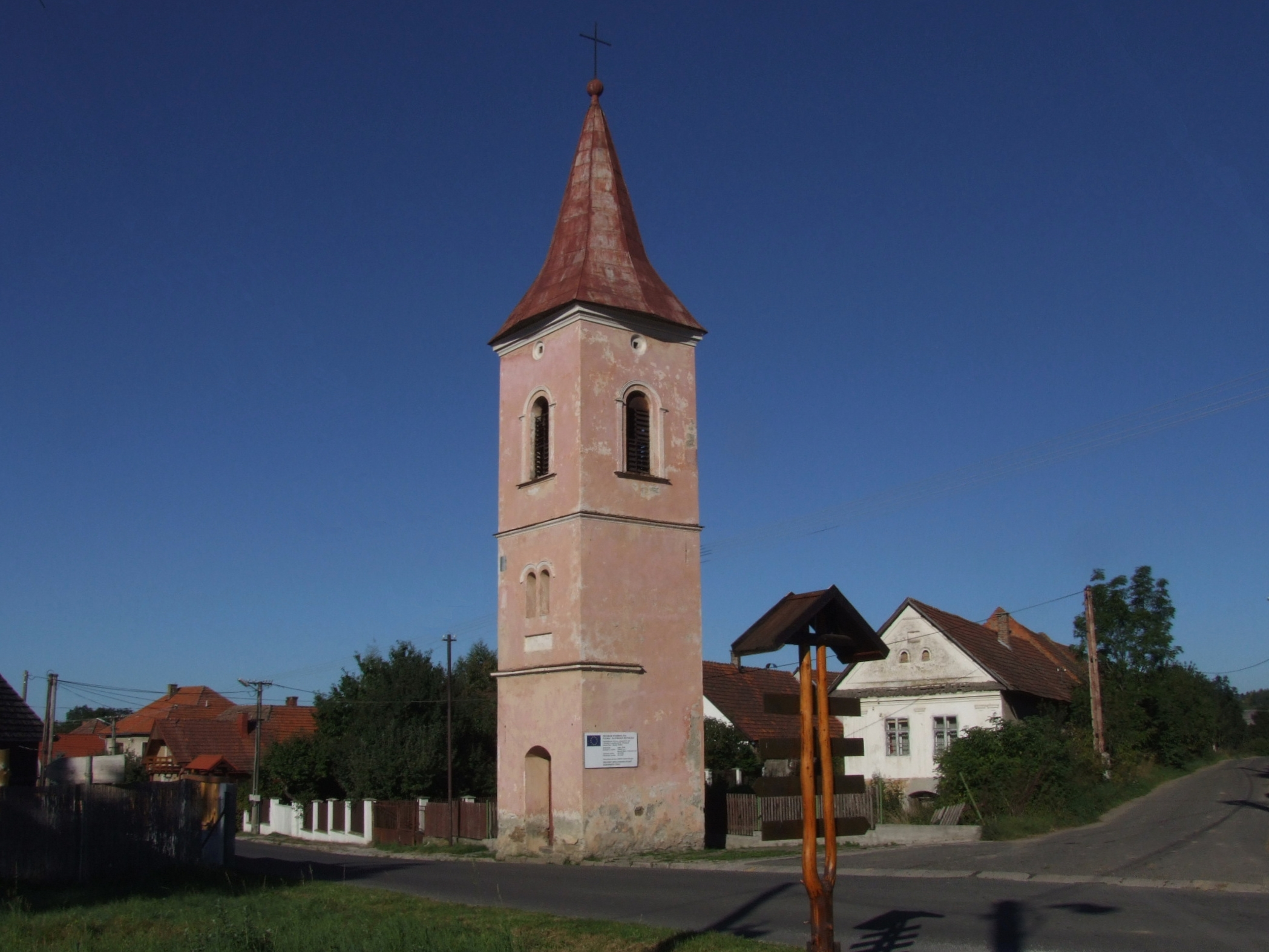 Žiar, Liptovský Mikuláš District